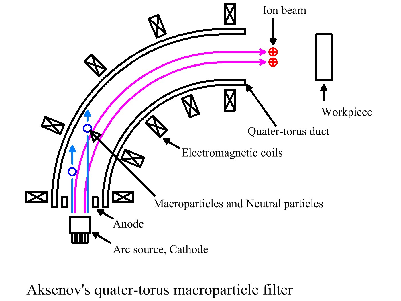 Aksenov Quater-torus Macroparticles Filter